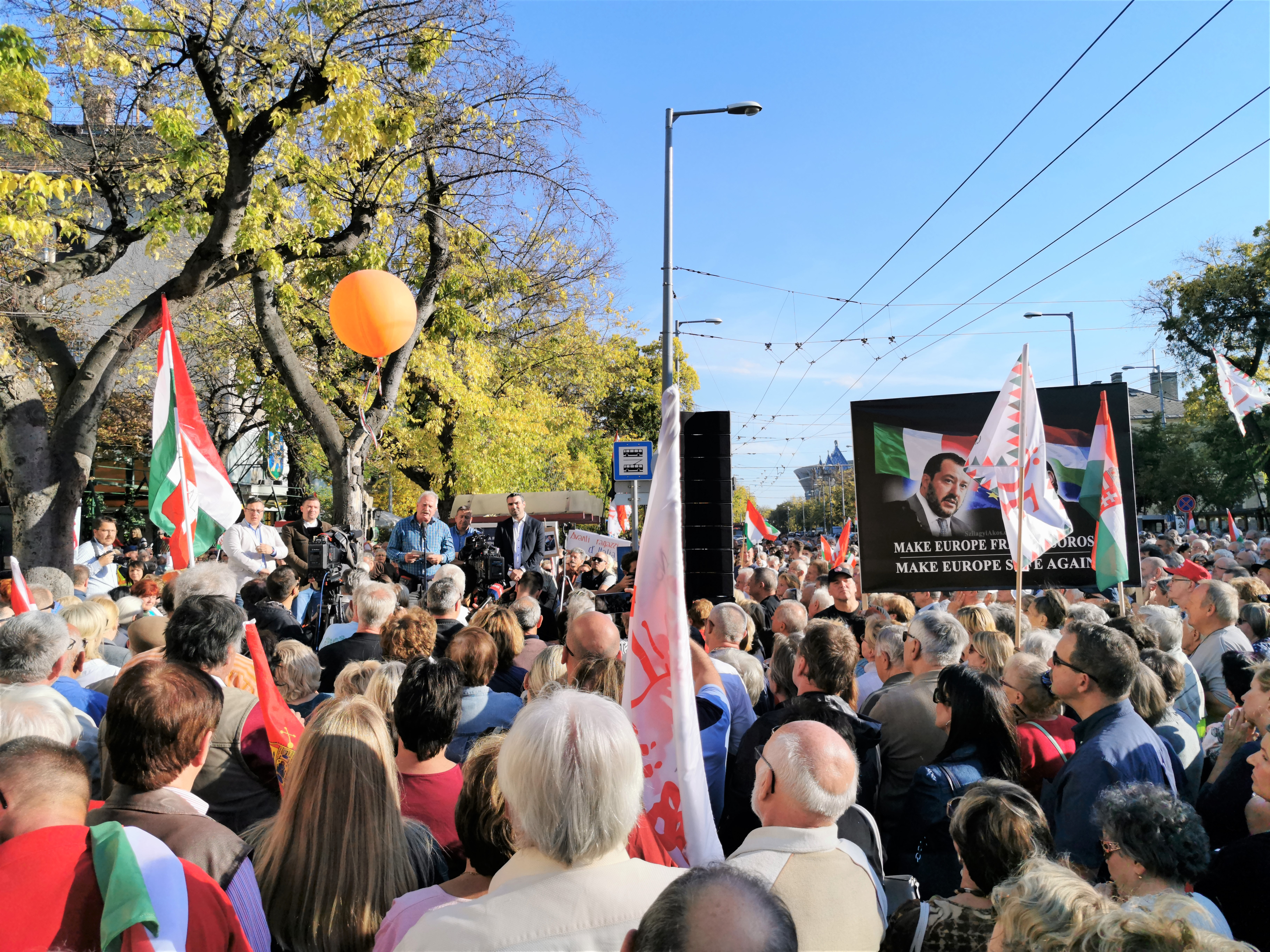 The border of Europe defenseless. Demonstration in front of the Italian Embassy, Stefánia út, Budapest, Central Europe. Taken on the 19th of October, 2019. Bencsik András speaking.